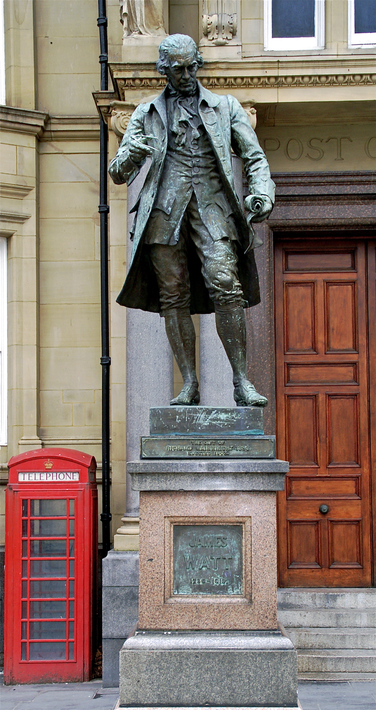 Statue James Watt on City Square in Leeds (UK)